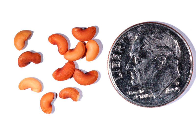 Seeds of Medicago turbinata next to a U.S. dime for scale.